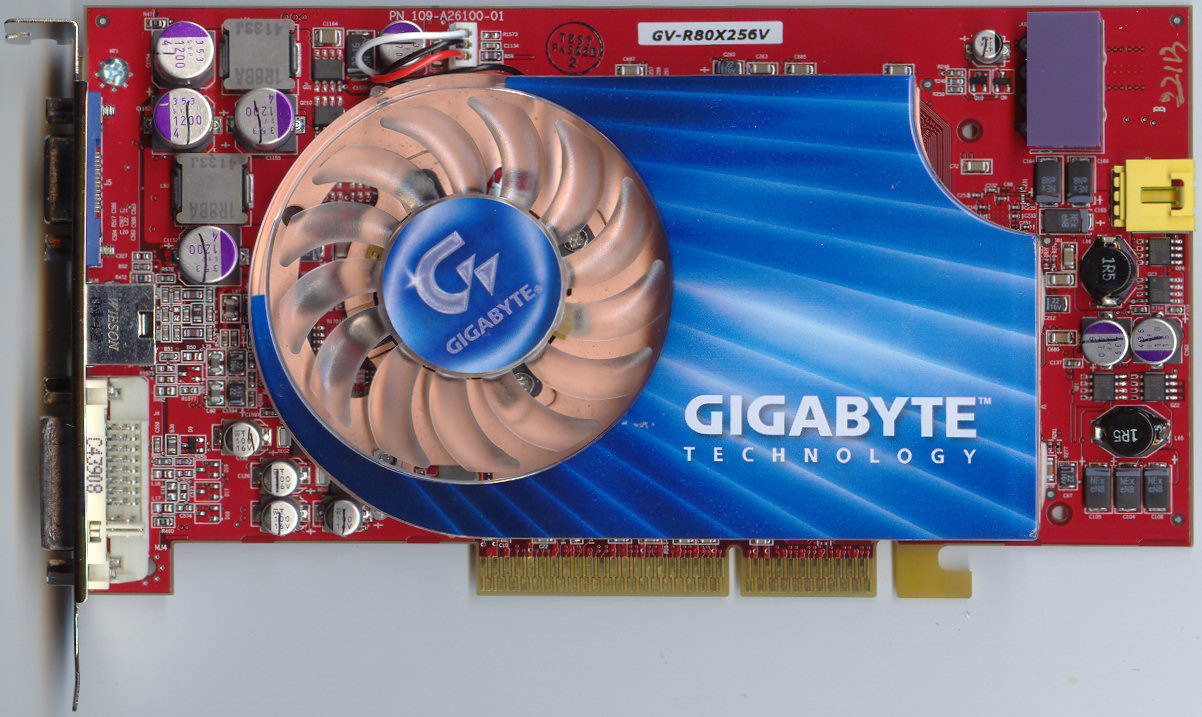 Gigabyte graphics card GV-R80X256V with ATI Radeon X800XT Platinum Edition. Card scanned by me.